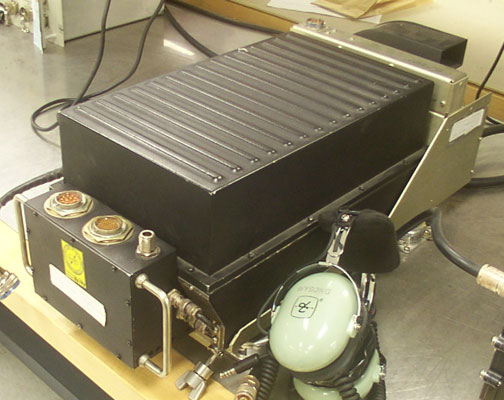 ARC-190 Receiver/Transmitter (RT-1341) in an R/T mount connected to a bench test set. Picture taken at Moffett Federal Airfield by Richard C. Wysong II in early 2003. Uploaded by the same in 2007. Declared public domain by author (self).